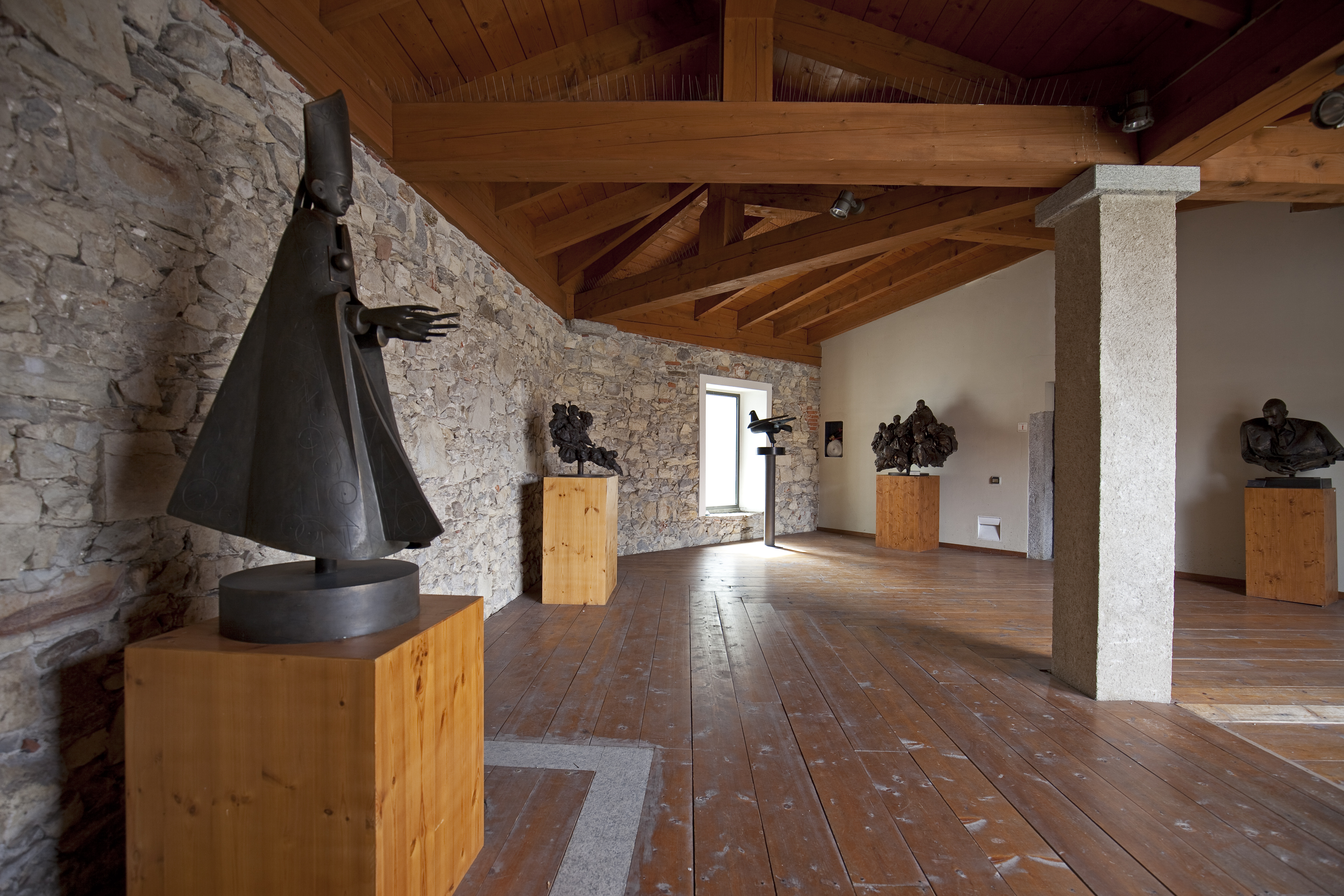 Loggiato, ph Sara Baroni